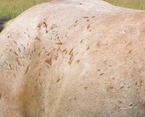 A classic bay roan horse, probably of Quarter Horse breeding